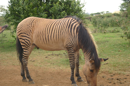 A Zebroid mix between a Grevy Zebra and a Horse. I took this picture in Mt. Kenya Safari Club summer 2005 and I donate it to the public domain.